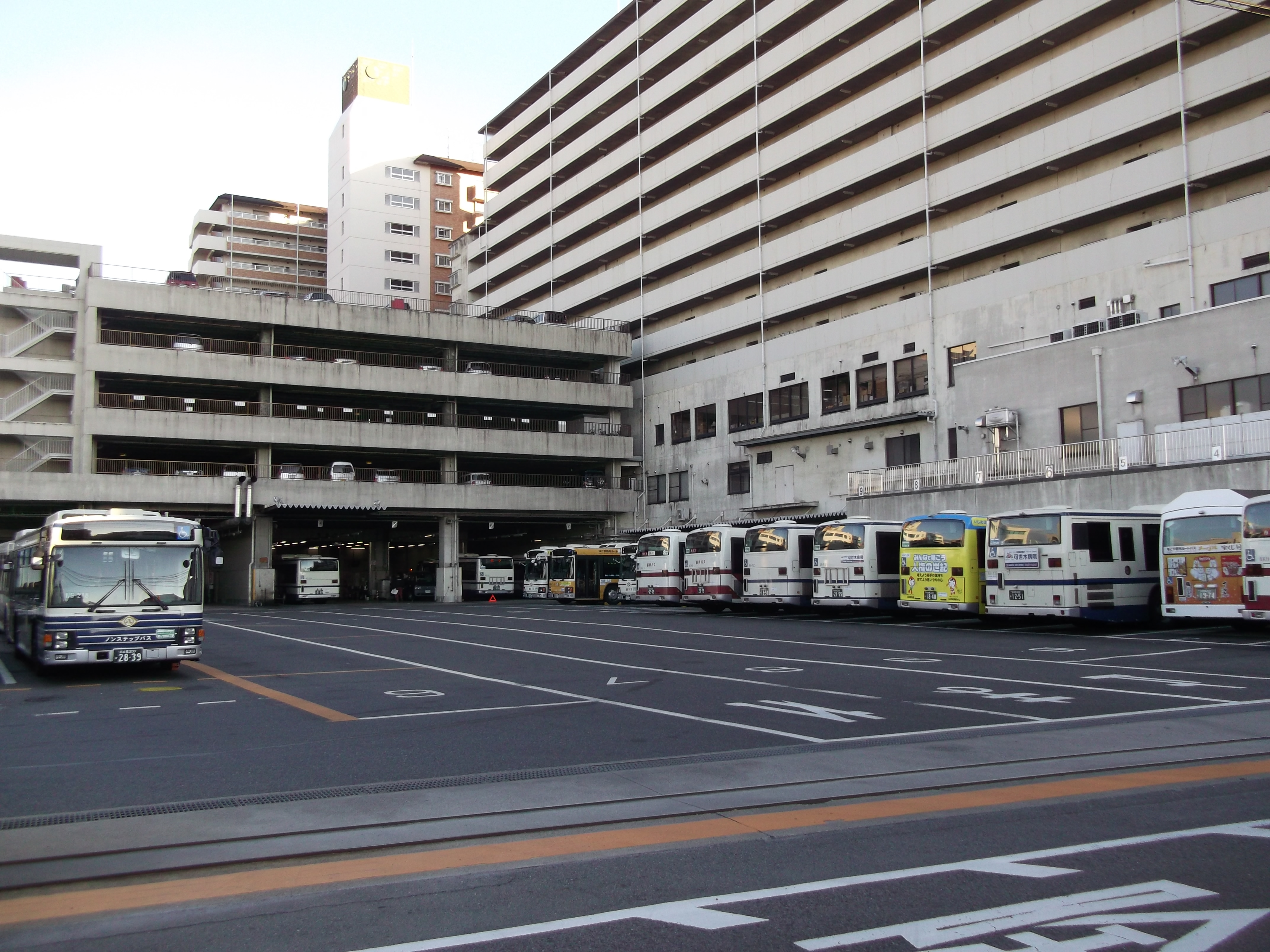 Nagoya City Bus Joshin Depot in Nishi-ku, Nagoya City